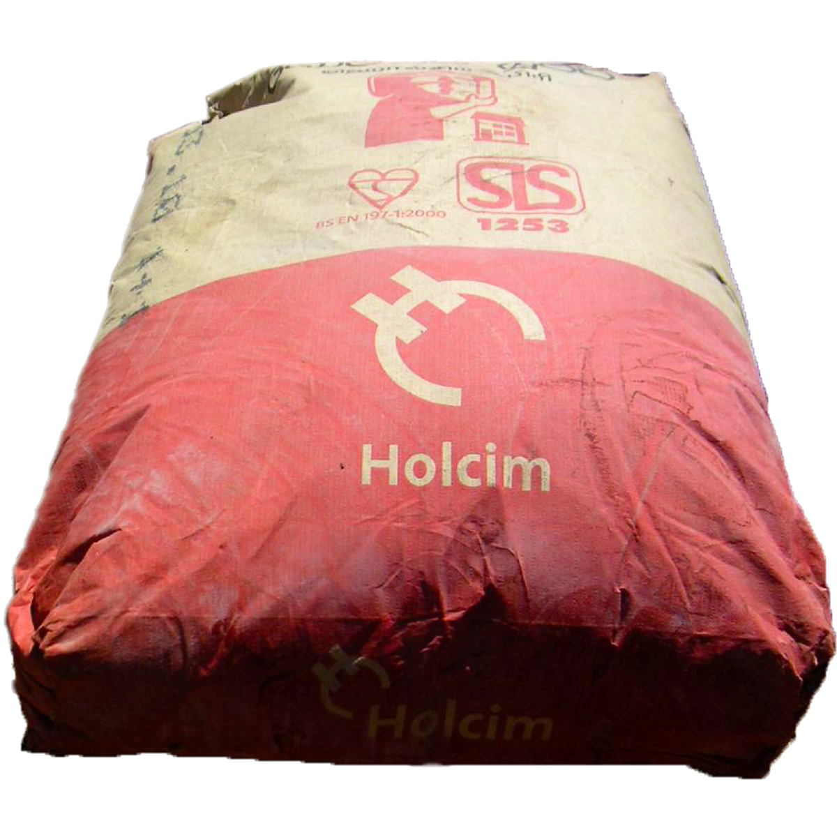 Portland cement bag in Acapulco, Mexico.